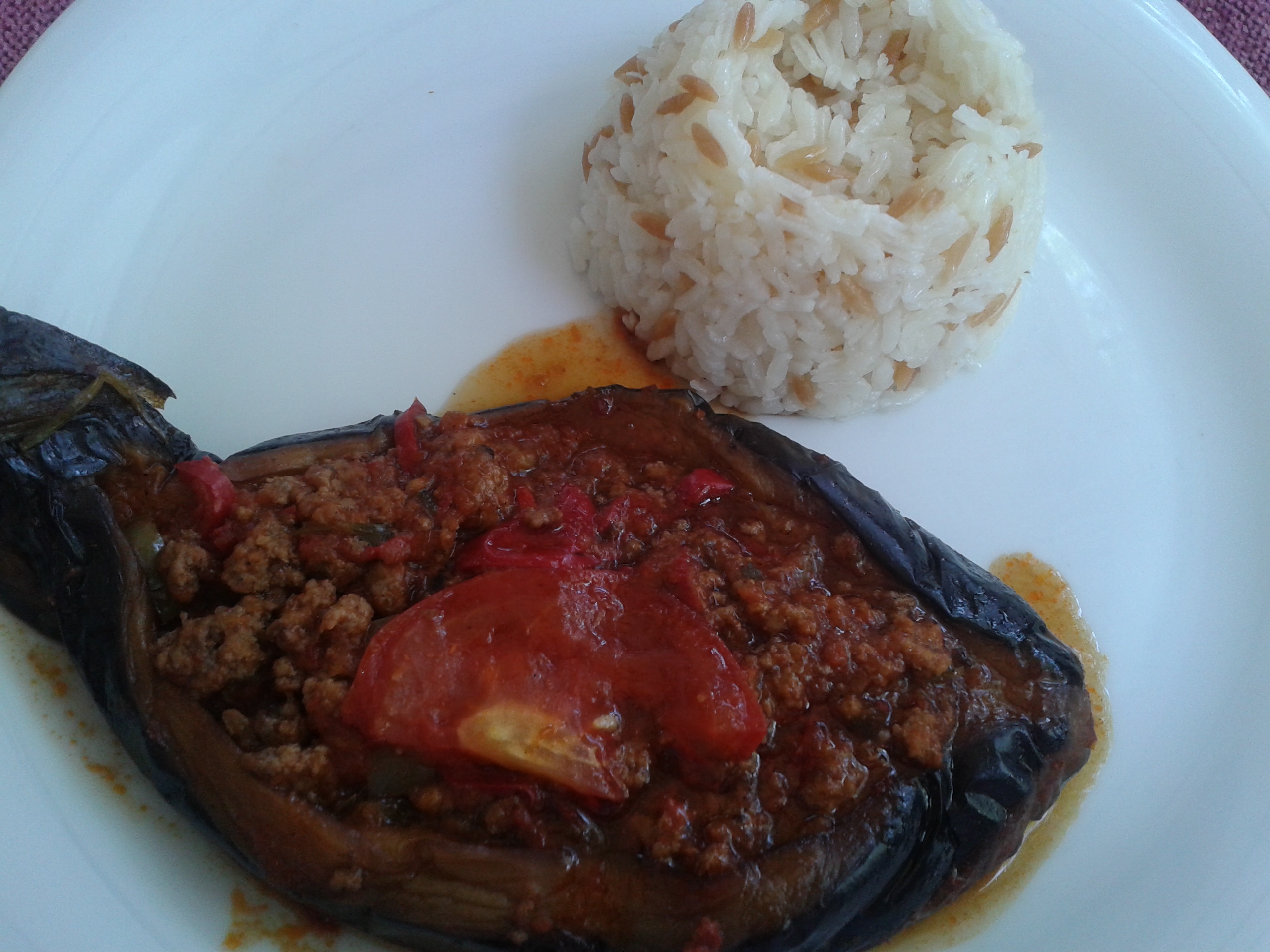 Karniyarik-pilav, a good couple in the Turkish cuisine.